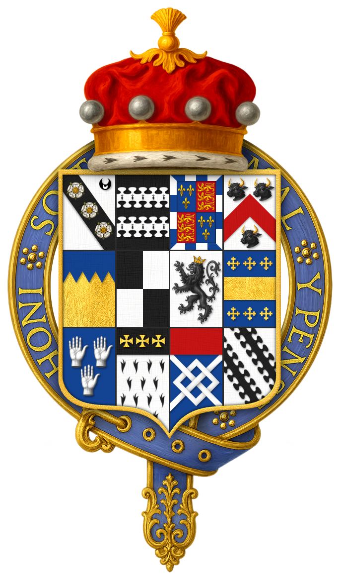 Coat of arms of Sir Henry Carey, 1st Baron Hunsdon, KG See arms on the monument to Lord Hunsdon at Westminster Abbey Arms: argent, on a bend sable, three roses argent, with a crescent sable for difference